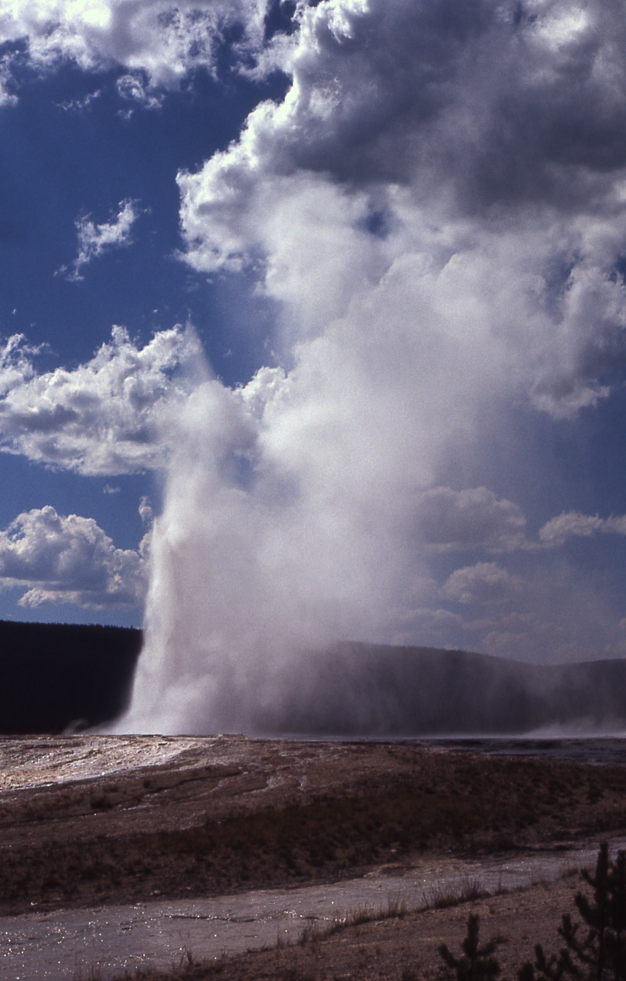 Giantess Geyser, Upper Geyser Basin, Yellowstone National Park, 1970